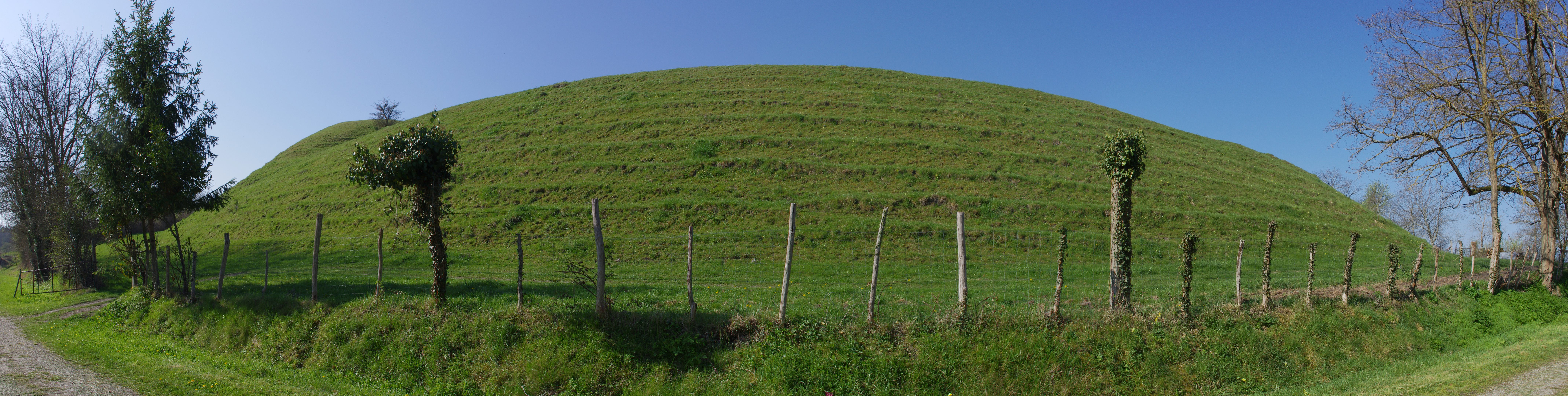 Former motte-and-bailey castle attested as "Castrum de Greziniaco" from 1243. Grésignac, Dordogne, France. .